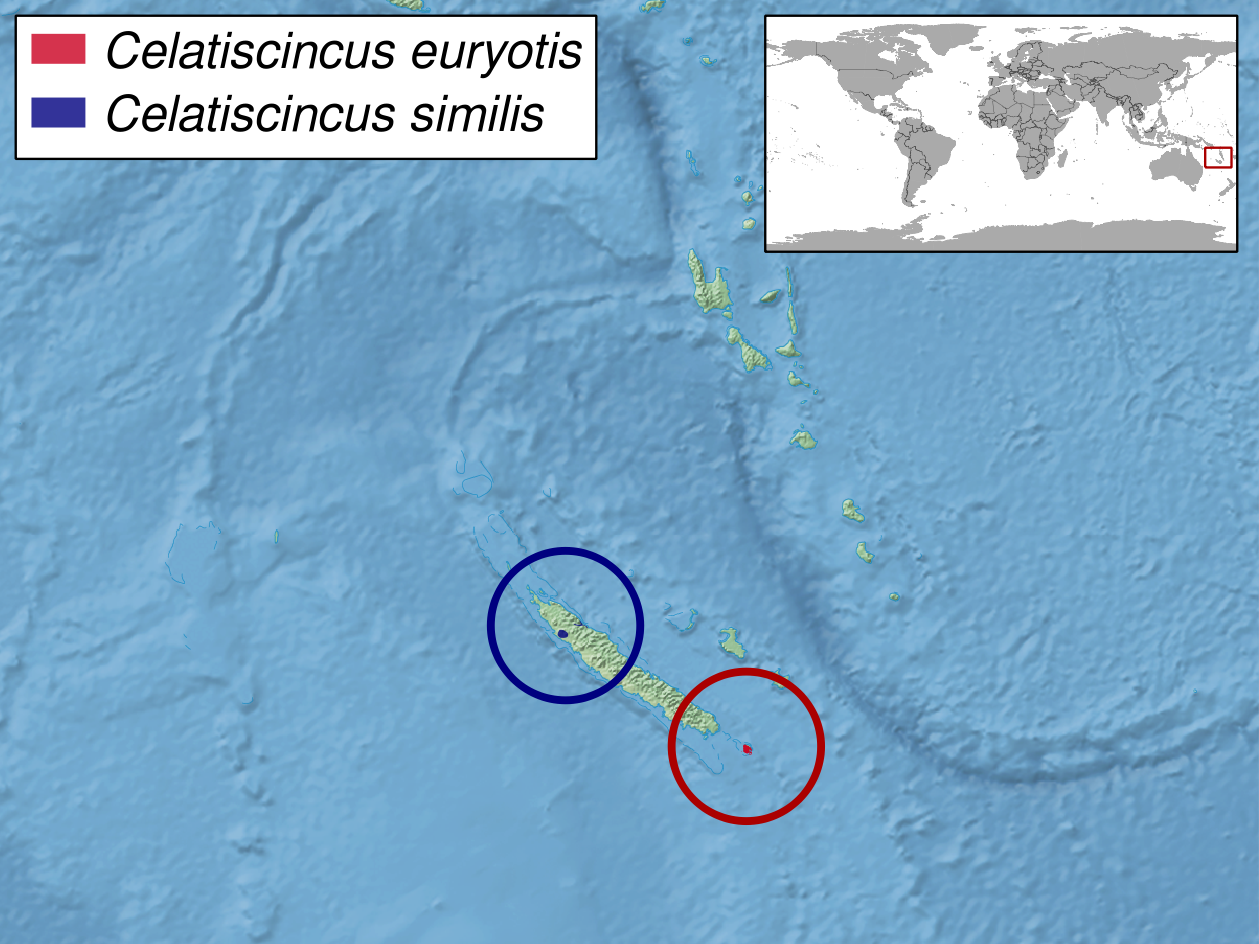 geographic distribution of Celatiscincus. RDB includes C. euryotis and C. similis